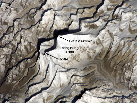 This detailed image of Everest, the highest (29,035 feet, 8850 meters) mountain in the world, shows early morning light on the eastern Kangshung Face. The mountains appear to jump out of the picture because the image was taken with low sunlight using an electronic still camera equipped with an 800 mm lens.